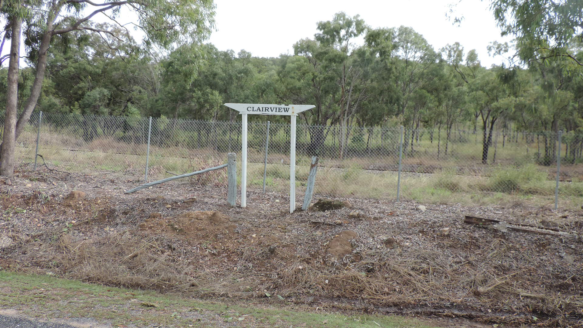 Remants of the former Clairview railway station, 2016, Queensland